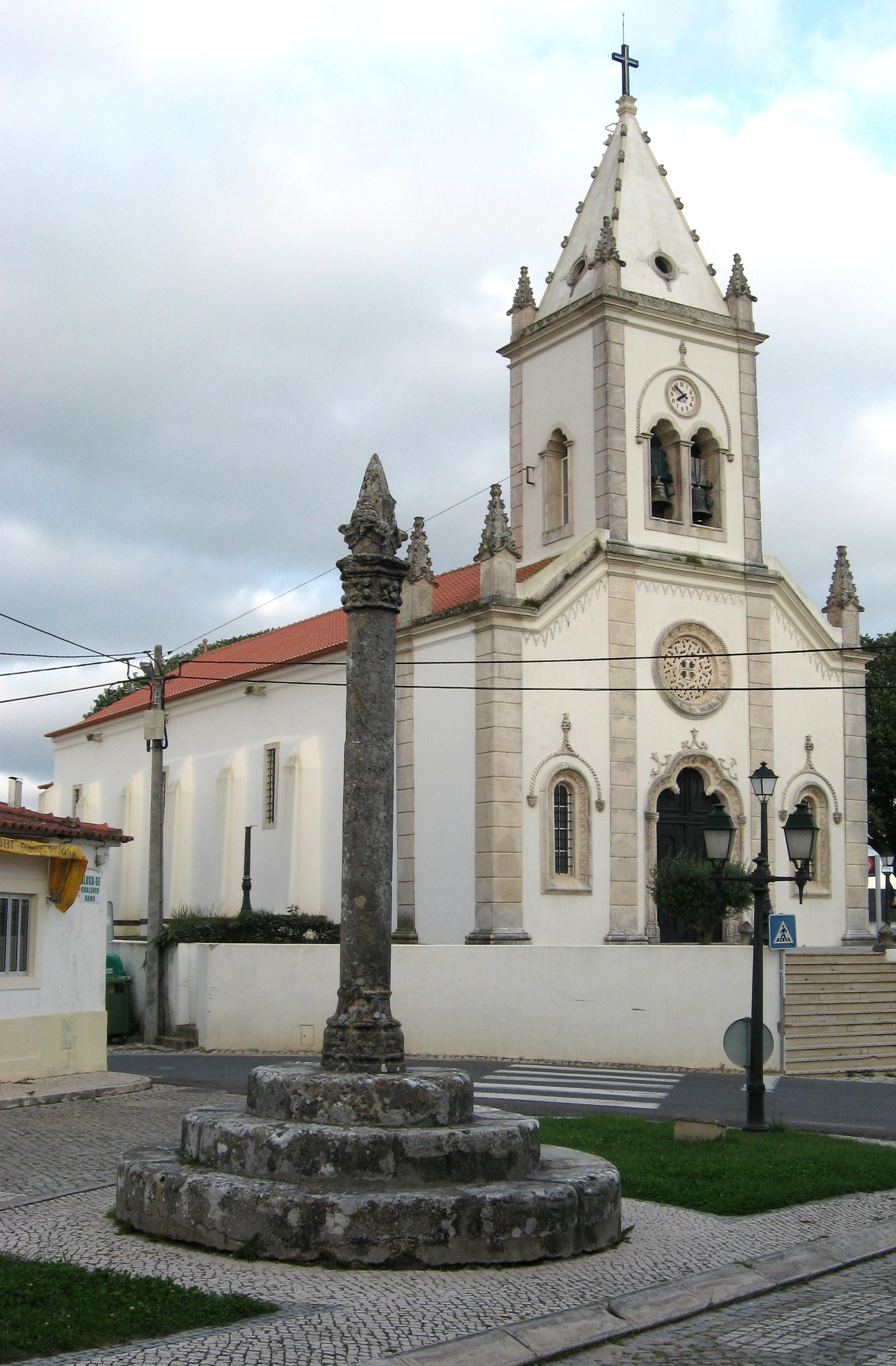 Alcobaça, Portugal, Mosteiro de Alcobaça, Coutos de Alcobaça, old county of the abbey: city: Cela Nova, picture of Pelourinho from 1514 with church Santo André , same time